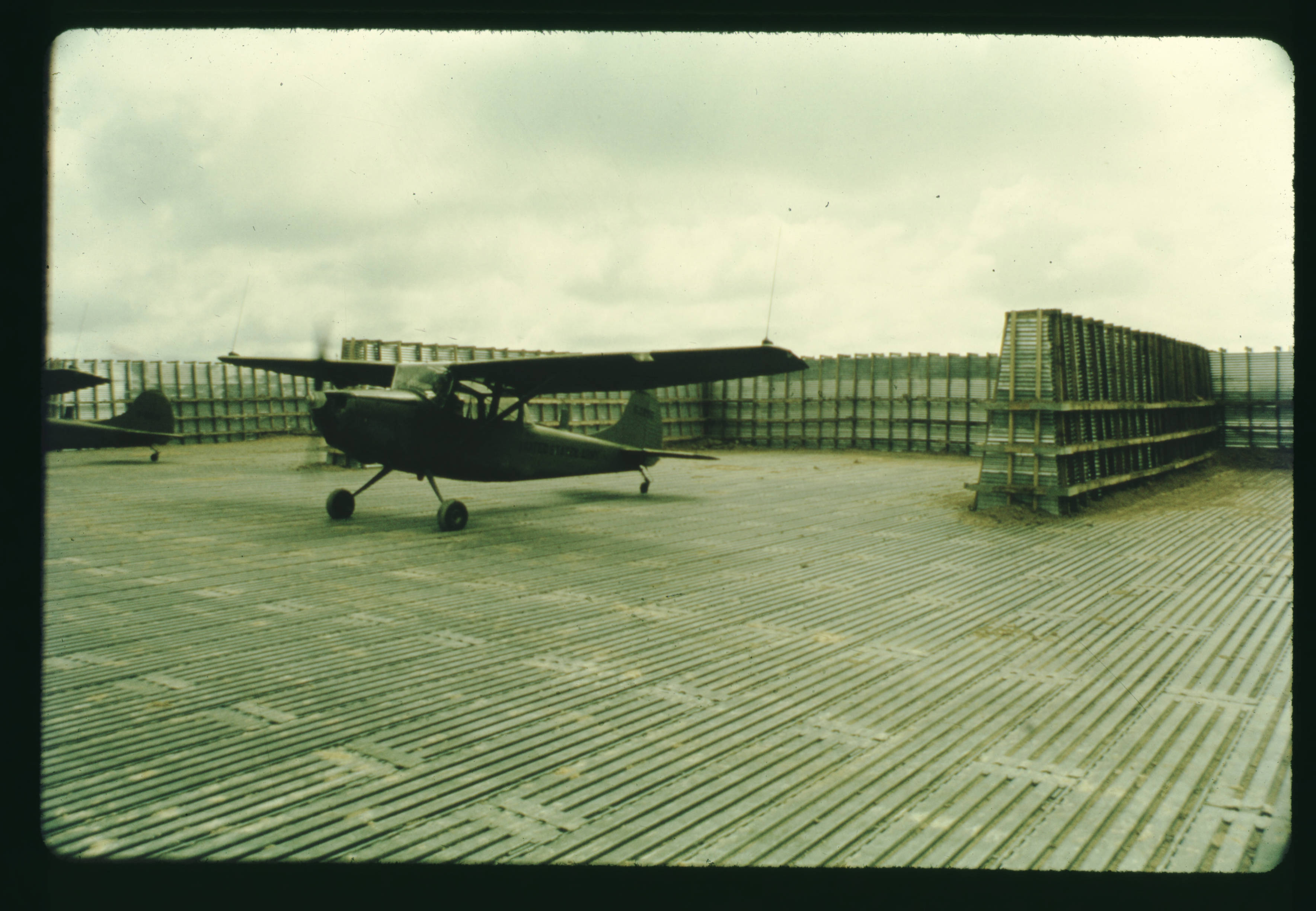 At Kontum C Company, 299th Engineer Battalion continues construction in support of aviation units. Work includes aircraft maintenance hangars, hardstands and parking area revetments.